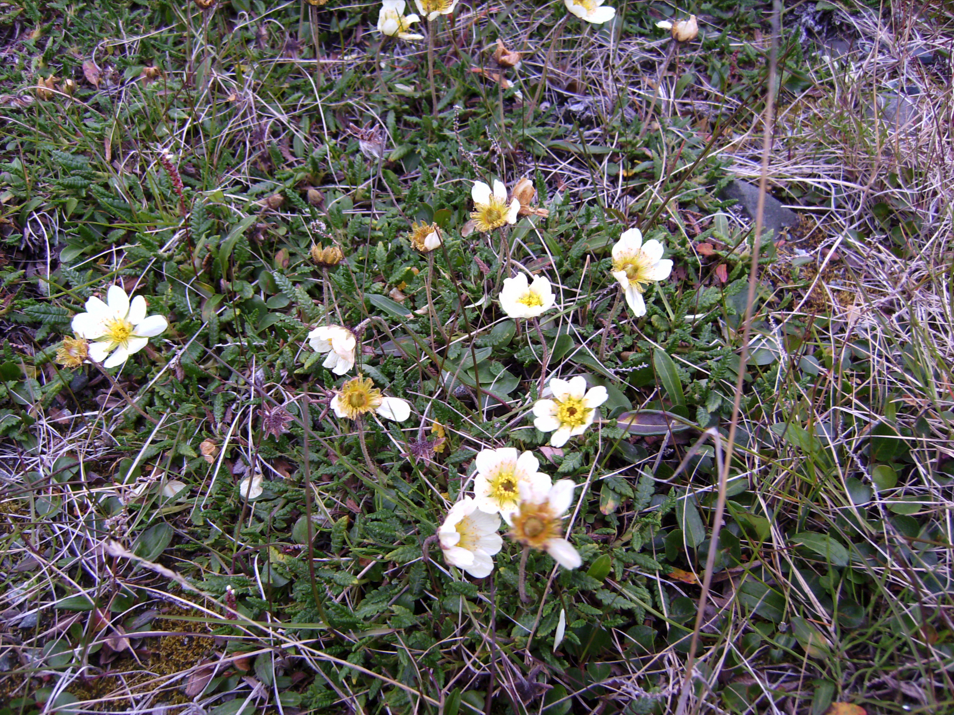 Dryas octopetala at Longyearbyen, Svalbard